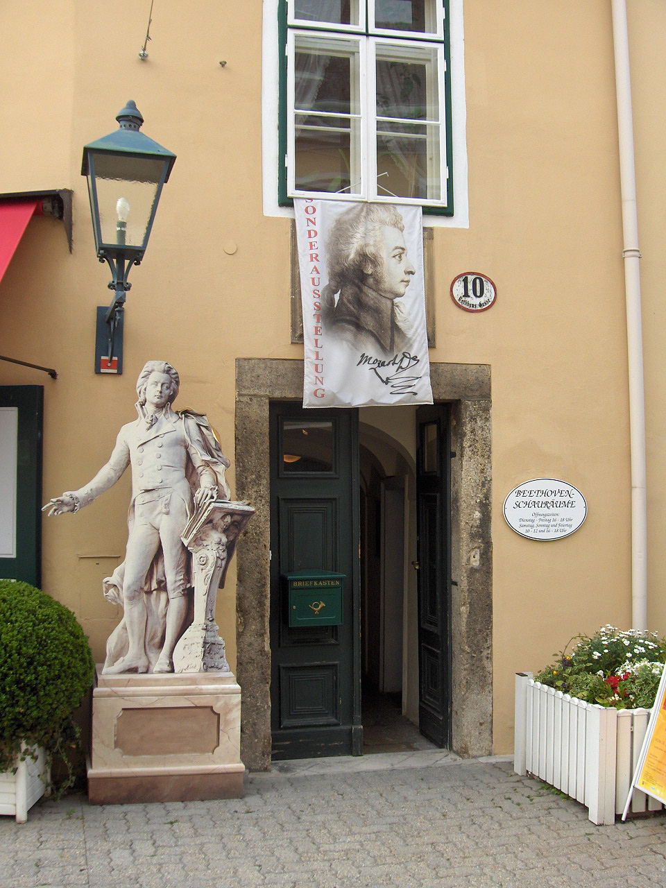 Beethoven house at the Rathausgasse 10, Baden bei Wien, Austria